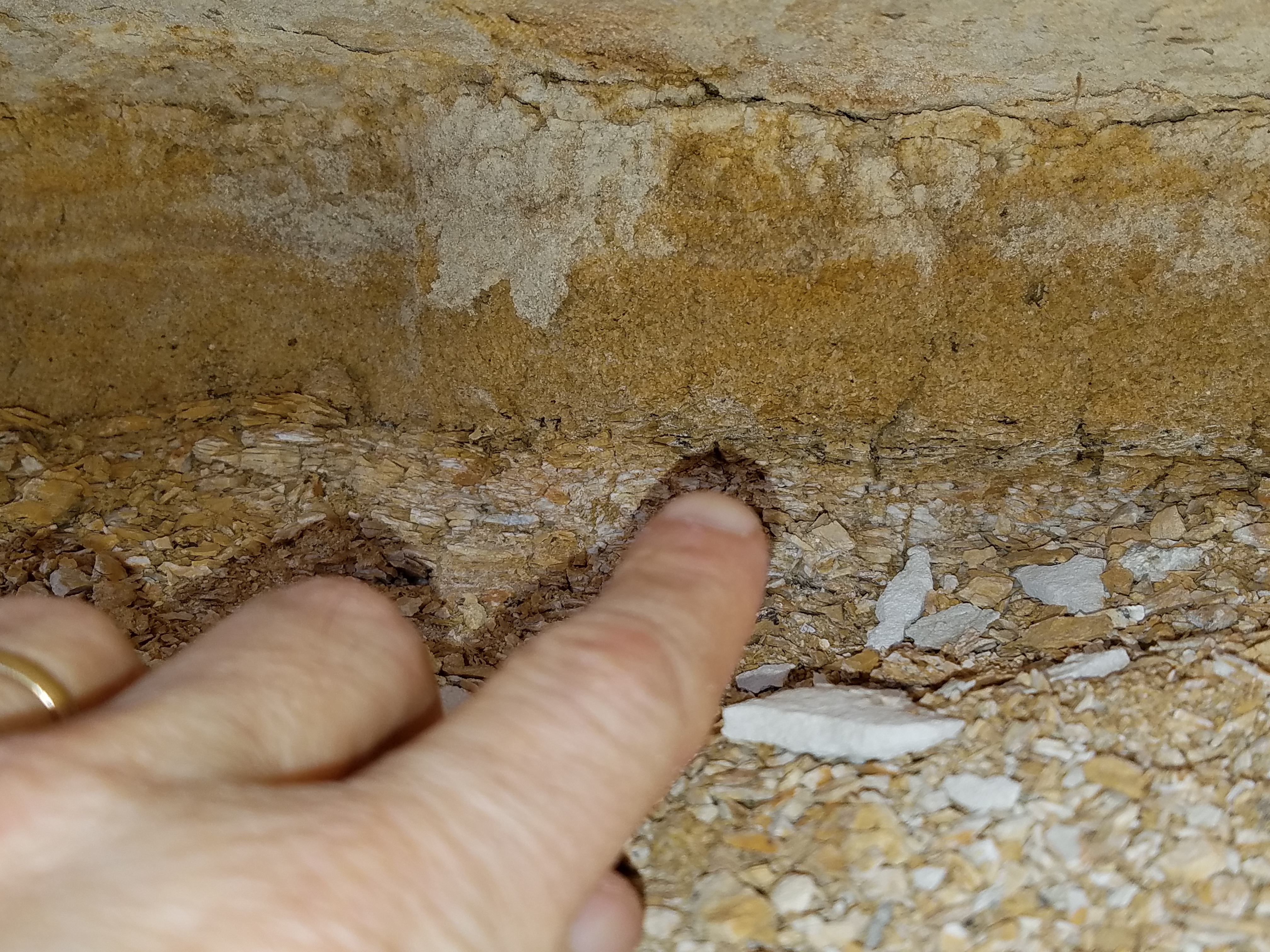 Fairport Chalk bentonite marker bed F-1, beneath a shallow ledge of the "limestone above the Fencepost" (marker bed F-2).